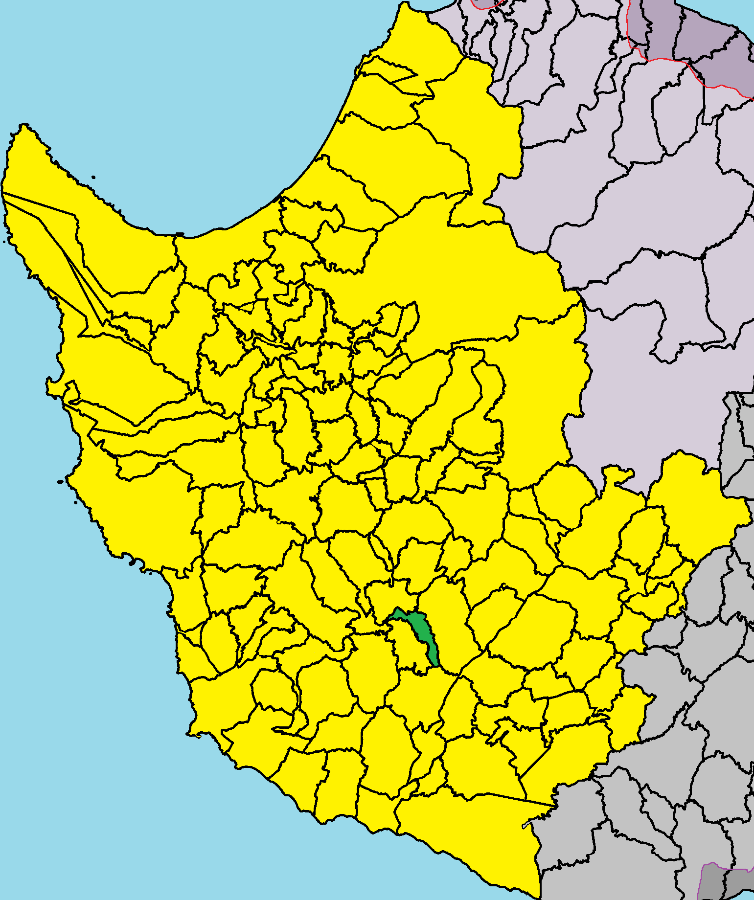 Eledio in Paphos District.